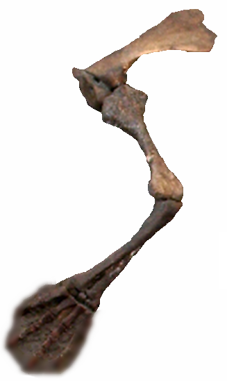 The leg of Turfanosuchus, a carnivorous archosauromorph from the Middle-Triassic of China.